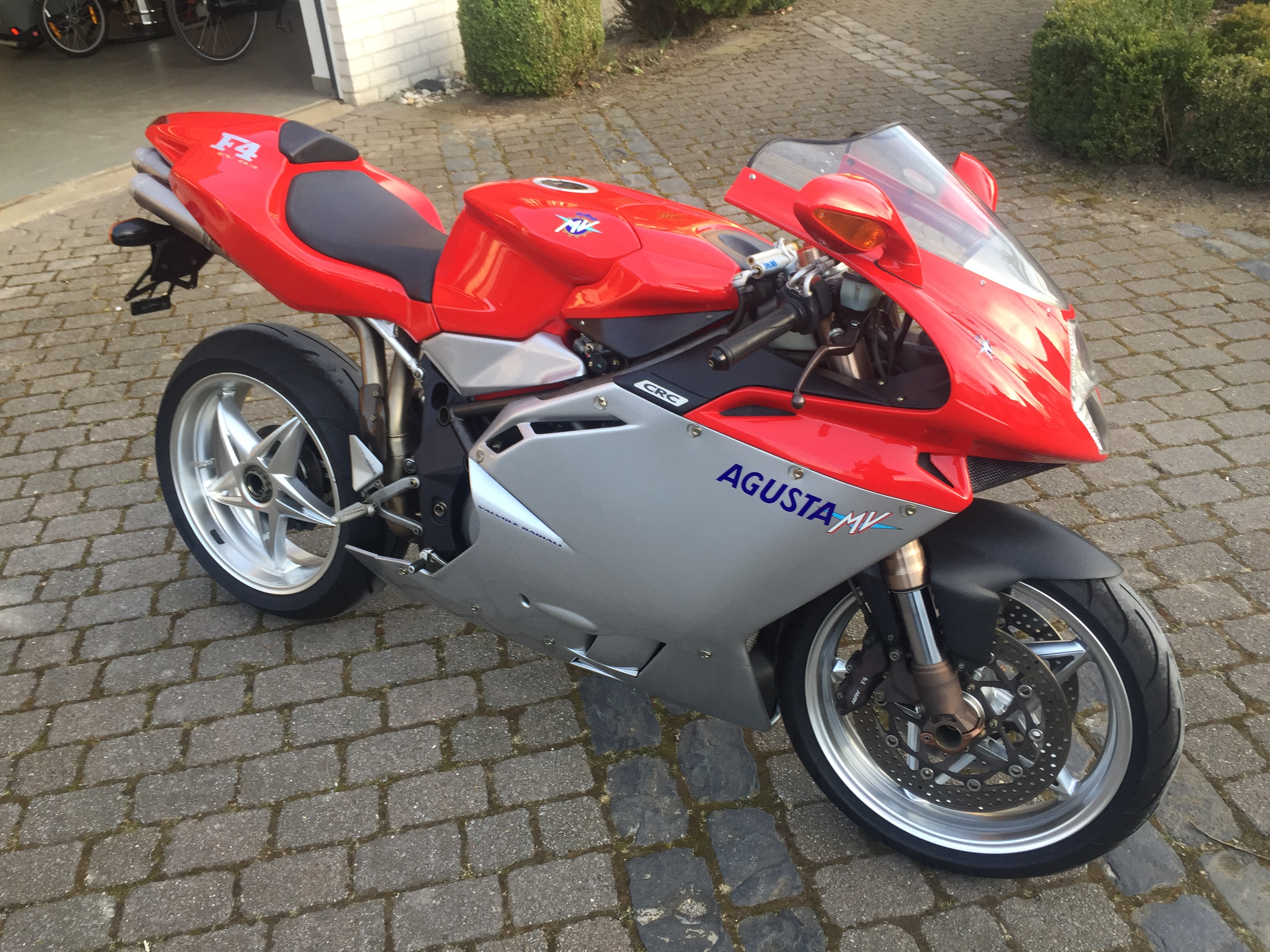 A dream of a motorcycle